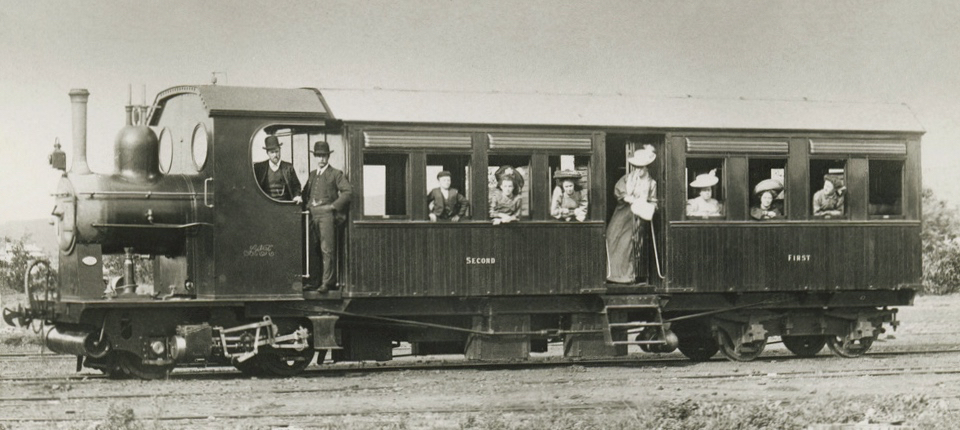 An early railcar of the South Australian Railways (SAR), Steam Motor Coach no. 1, nicknamed "The Coffee Pot", pictured in 1906. The SAR, then the Commonwealth Railways, operated it on narrow-gauge railways in the northern parts of South Australia from 1906 to 1932. After being stored, it was heavily restored in 1984 and has been operated by the Pichi Richi Railway Preservation Society, Quorn SA, since then.